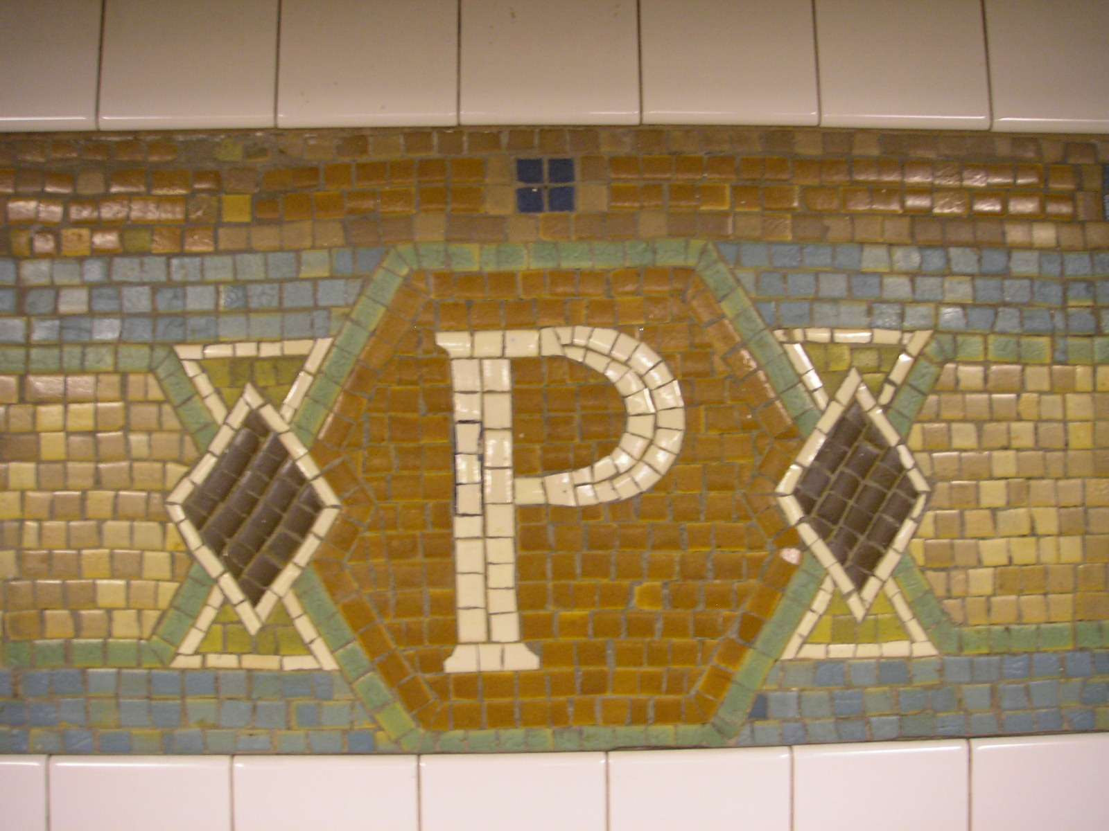 Mosaic sign on Penn Station subway station in New York City.